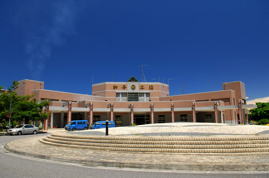 HePing Station is a local train station of North-Link Line, part of Taiwan's eastern rail line. It is located within the boundary of SiouLin Township, HuaLien County.